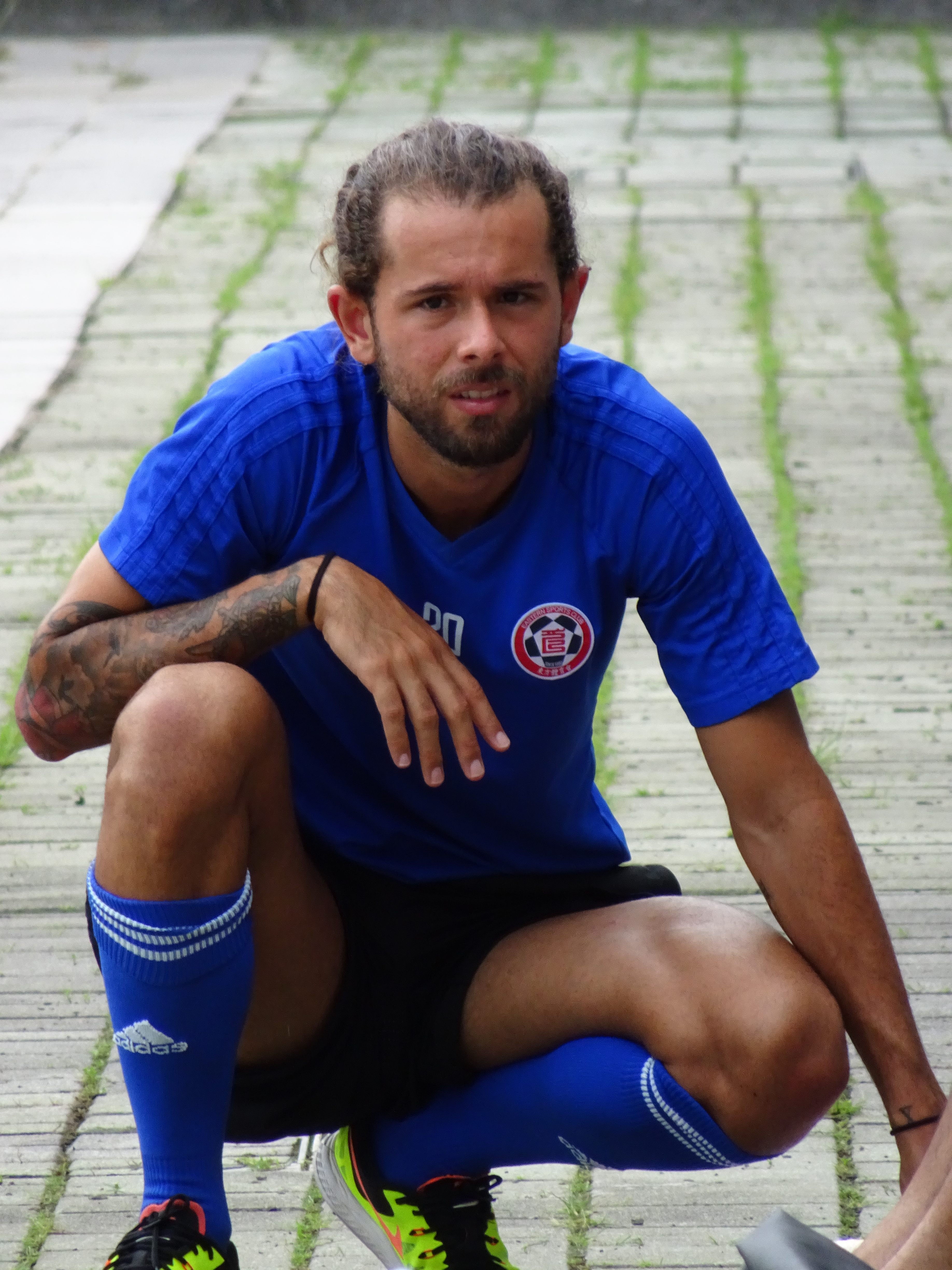 Vitor Saba (3 Aug 2017, Friendly match, Eastern vs Dreams FC, Kowloon Bay Park) 中文（香港）: 沙巴 (3 Aug 2017, 友賽, 東方 vs 夢想FC, 九龍灣公園)